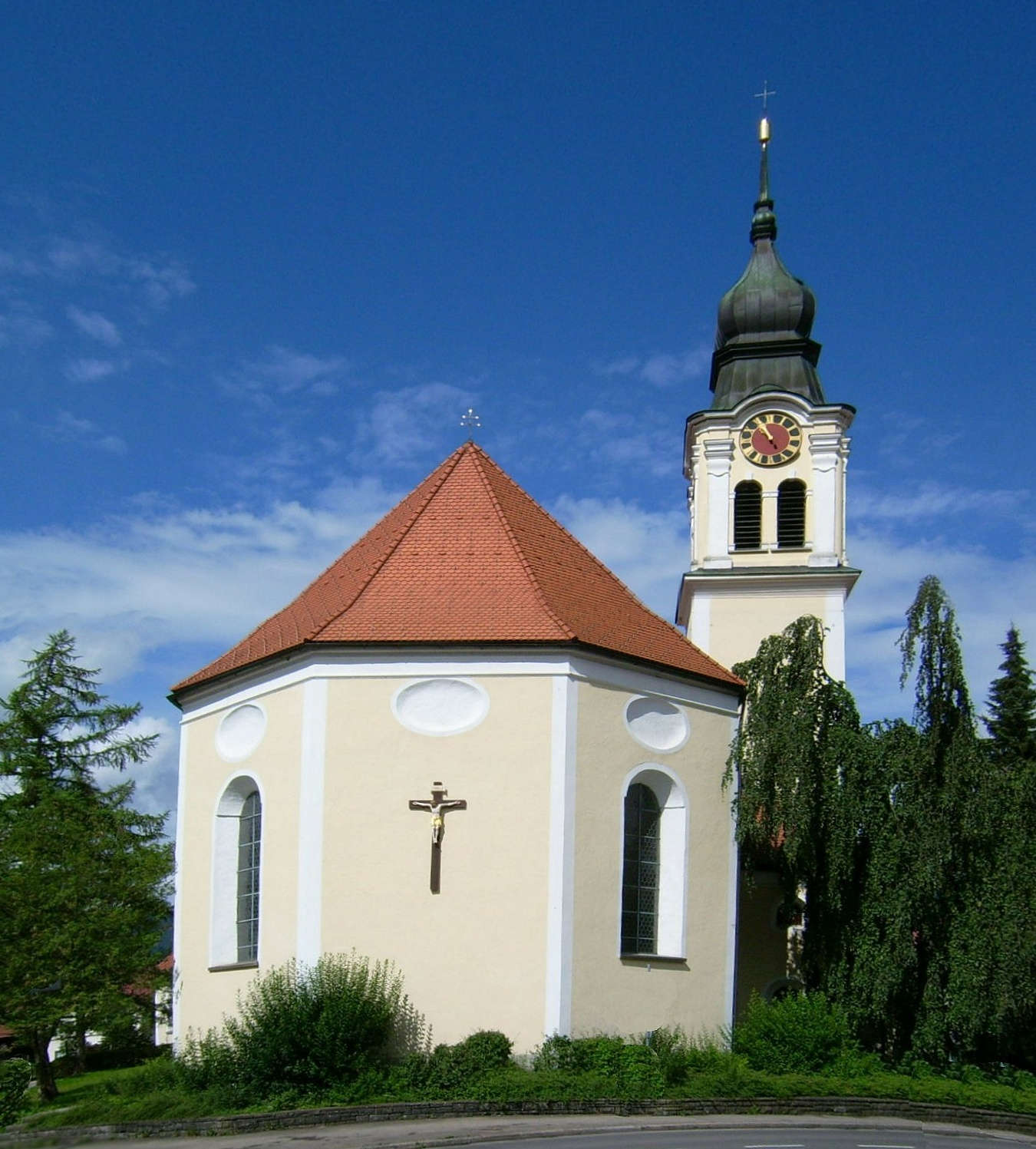 Sonthofen, view of St Michael's Parish Church from east.